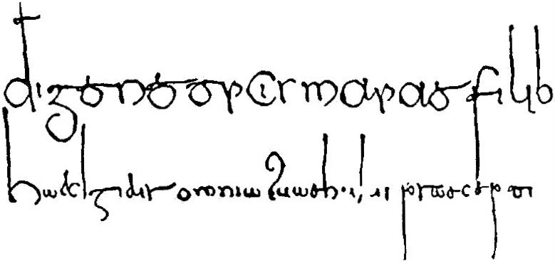 Bull of Pope John VIII. (much reduced, A.D. 876).